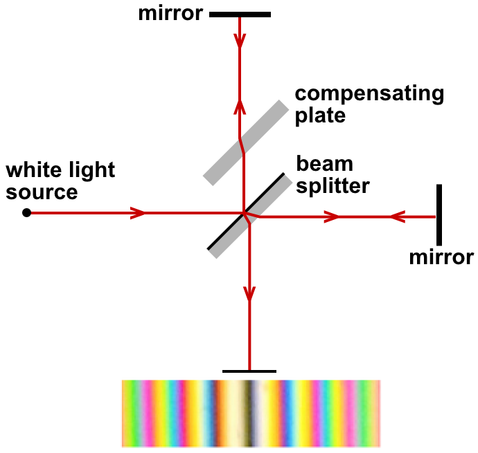 author: User:Stigmatella aurantiaca